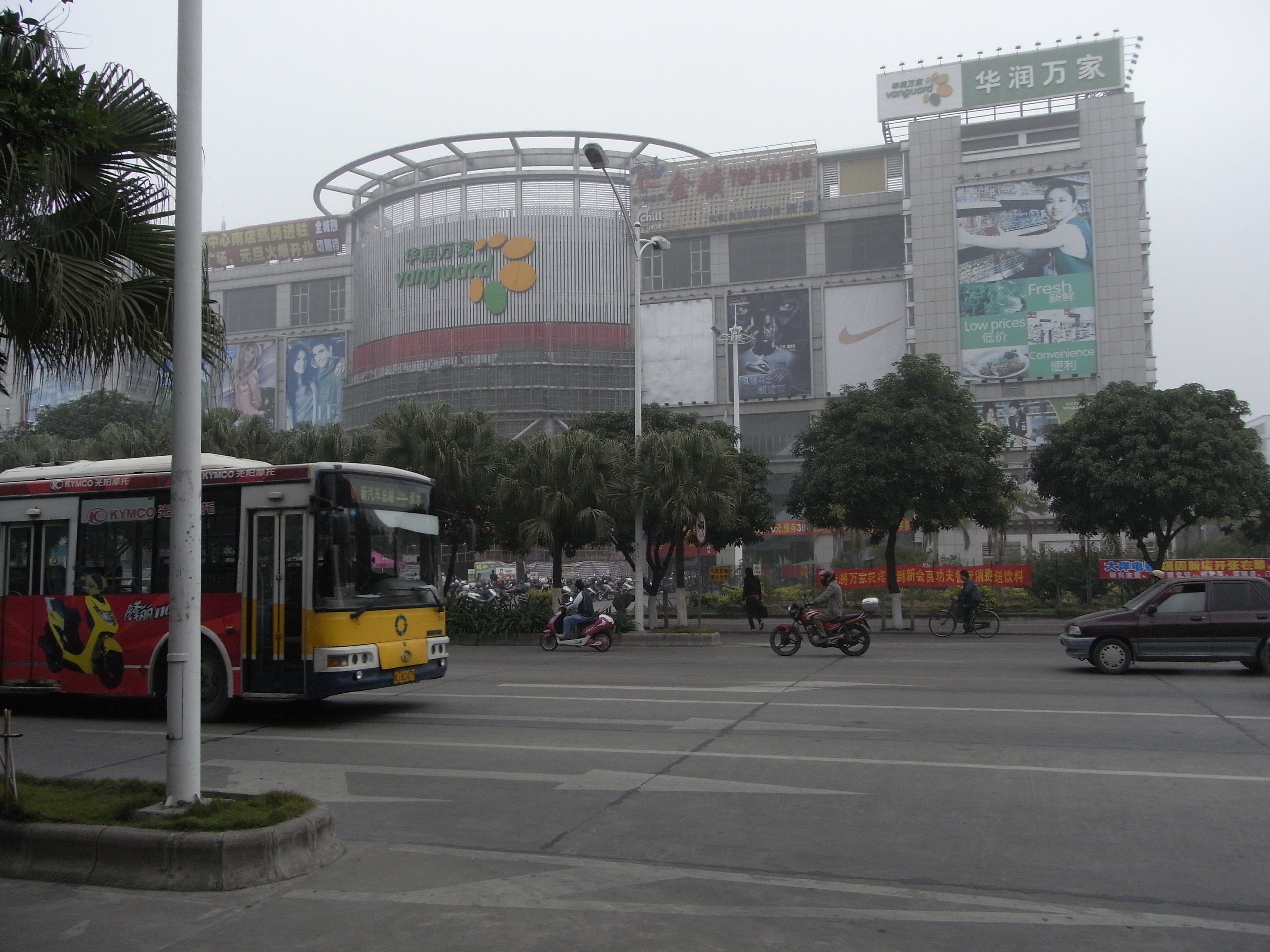 新會 中心南路